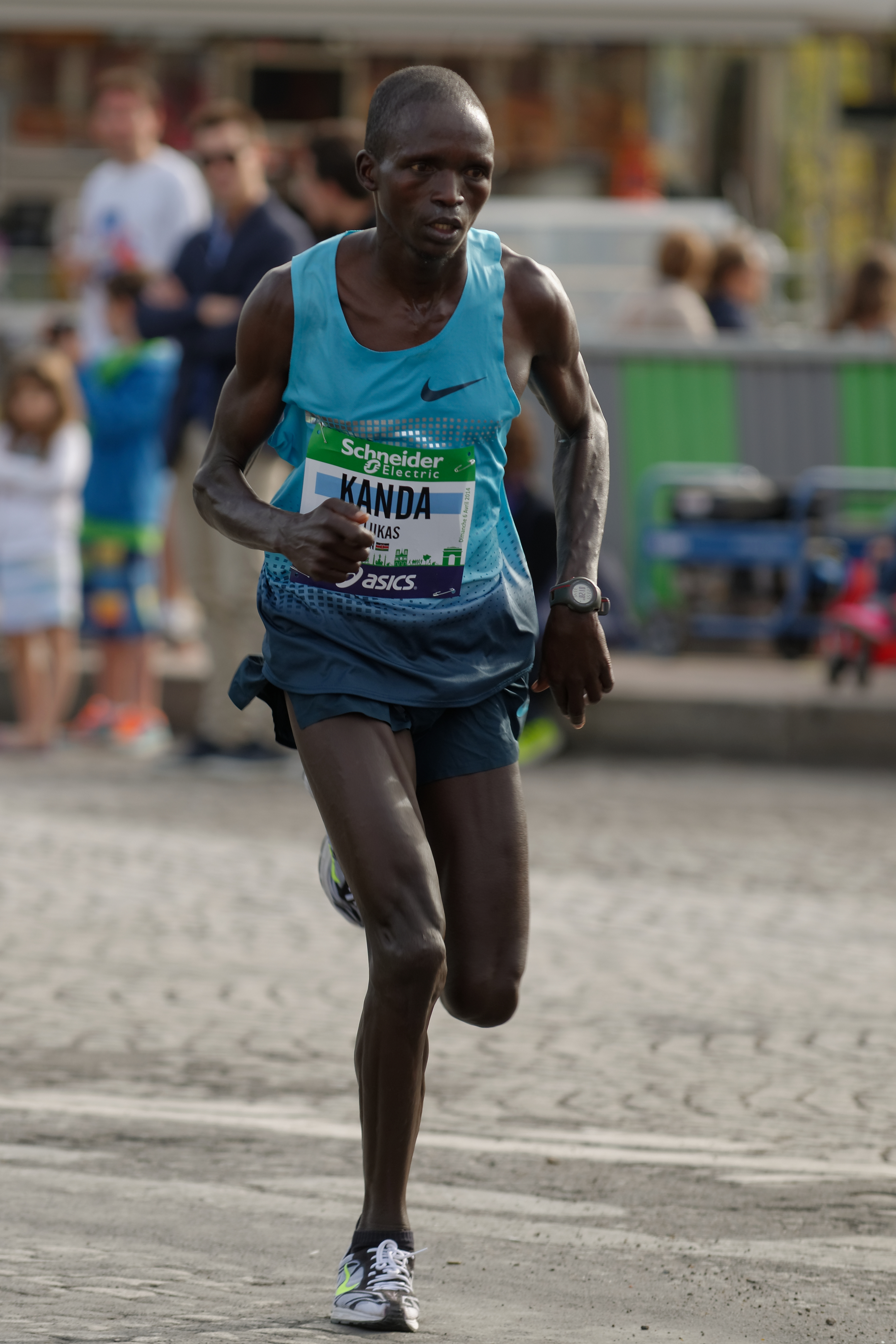 Kenya's Luka Kanda approaches the Trocadéro refreshment tables in the 2014 Paris Marathon.